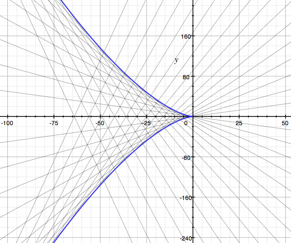 'General' straight-line solutions (grey) and singular envelope solution (blue) to the Clairaut's equation y=xy'+(y')^3.